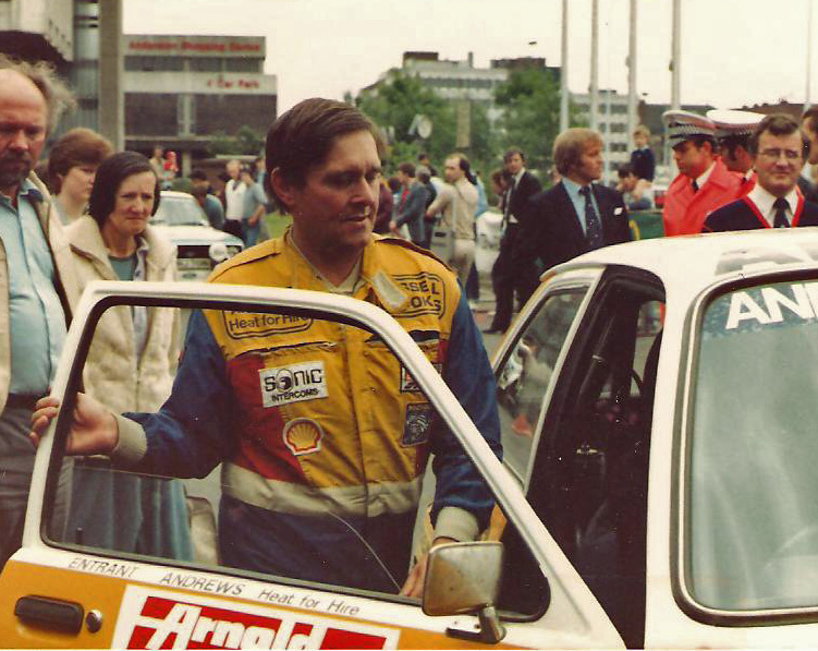 Russell Brookes at the start of the 1982 Scottish Rally. Driving a Vauxhall Chevette HSR. (Scanned from a 35mm print)